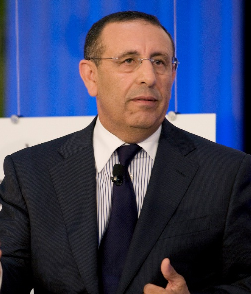 MARRAKECH/MOROCCO, 26OCT10 - Youssef Amrani, Deputy Minister of Foreign Affairs and Cooperation of Morocco - France 24 Debate The Future of The Mediterranean- World Economic Forum on the Middle East and North Africa Marrakech, Morocco, 26 October 2010. Copyright World Economic Forum ( by Alan Keohane/still